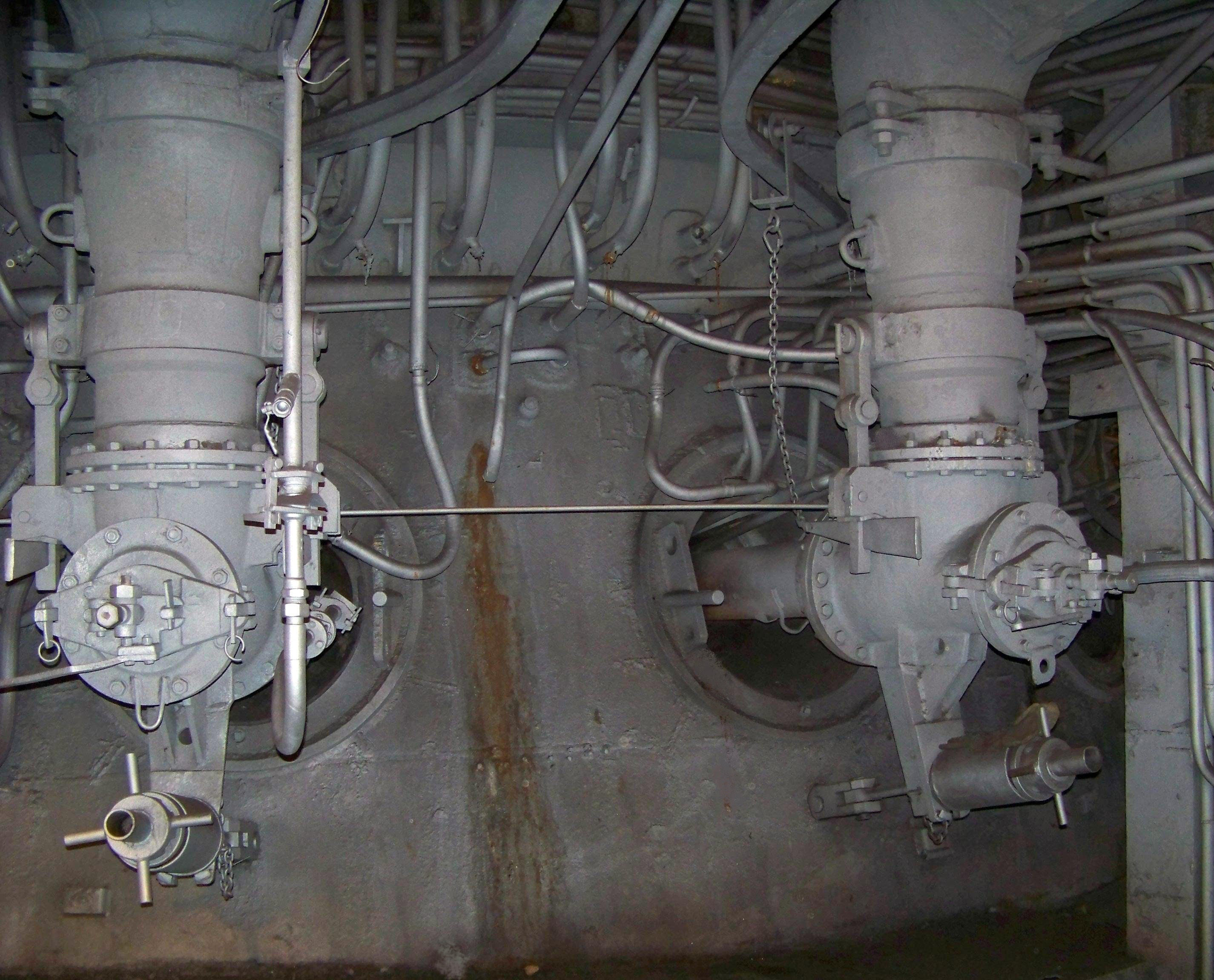 A blast furnace.